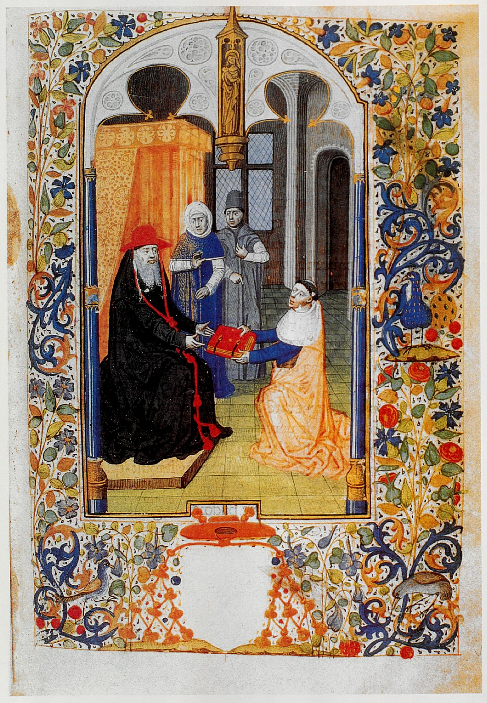 The rector of the University of Paris, Guillaume Fichet (right), presents his Rhetoric, printed at Paris in 1471, to Cardinal Bessarion. Book illumination in the presentation copy of the incunabulum, Venice, Biblioteca Nazionale Marciana, Membr. 53, fol. 1r.